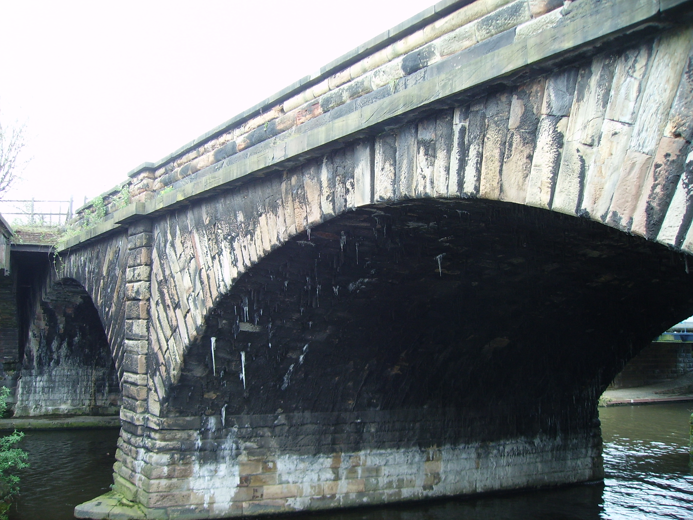 Railway Bridge over the River Irwell, architect George Stephenson